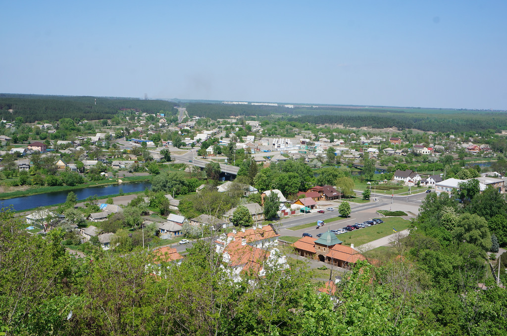 View of Čyhyryn from the city's Castle Hill